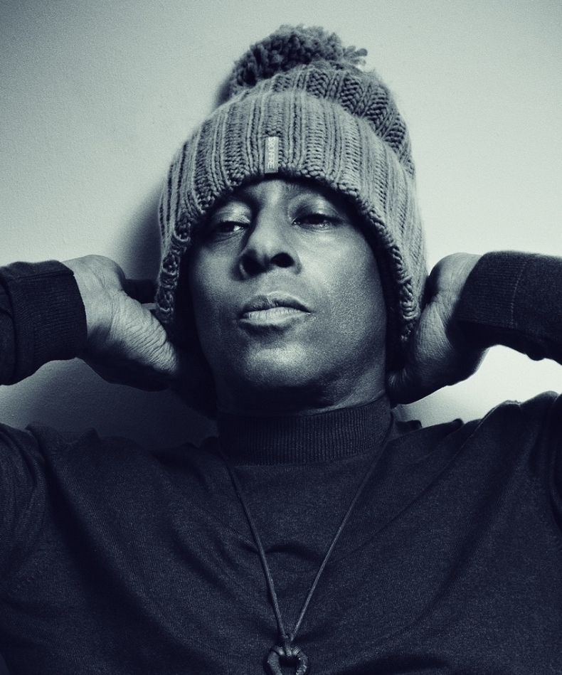 Carl McIntosh Photo